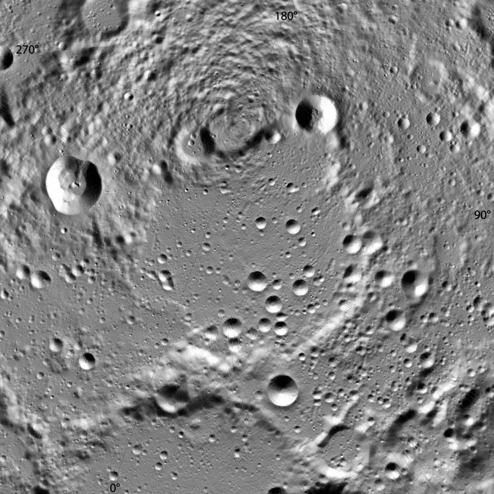 Crater Peary (diam. 80 km) on the Moon, near the North pole. Several smaller craters around also have proper names. The image is centered at 89°N, 22°E. The image is build from data by Lunar Orbiter Laser Altimeter (LOLA) aboard the Lunar Reconnaissance Orbiter. Width of the image is 170 km; North pole is above the center.